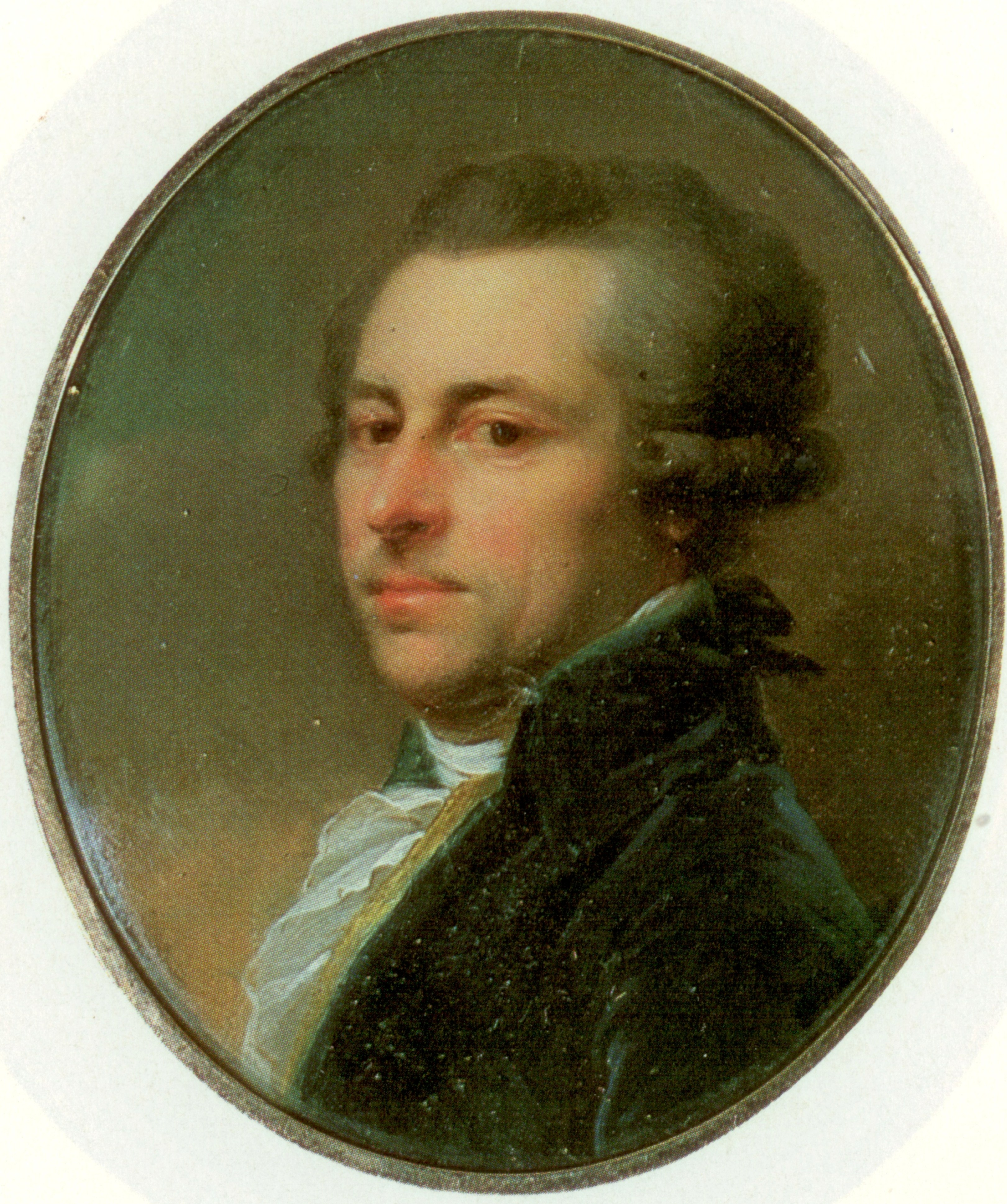 Portrait of Alexei Musin-Pushkin